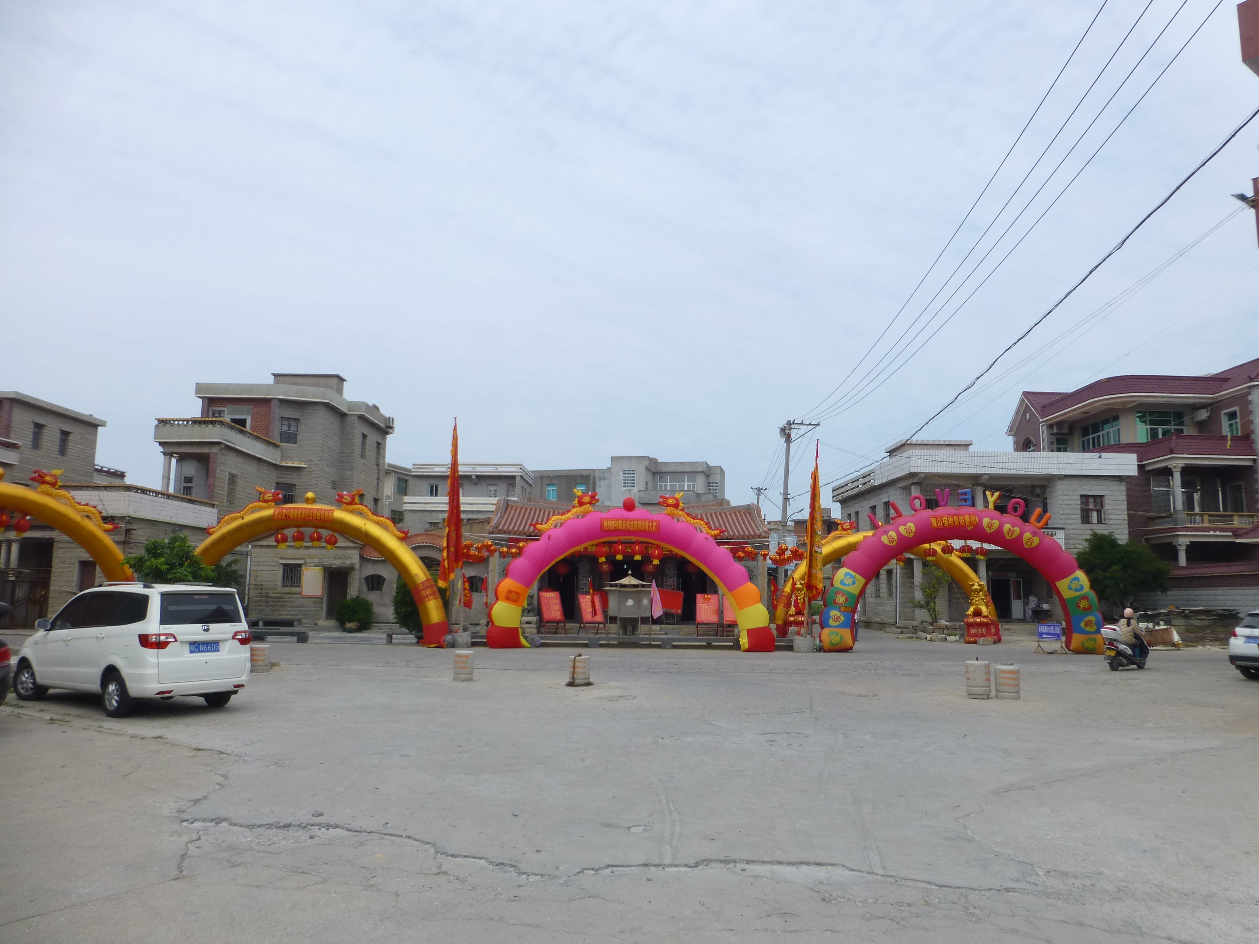 On the streets of Chongwu Town, Hui'an County